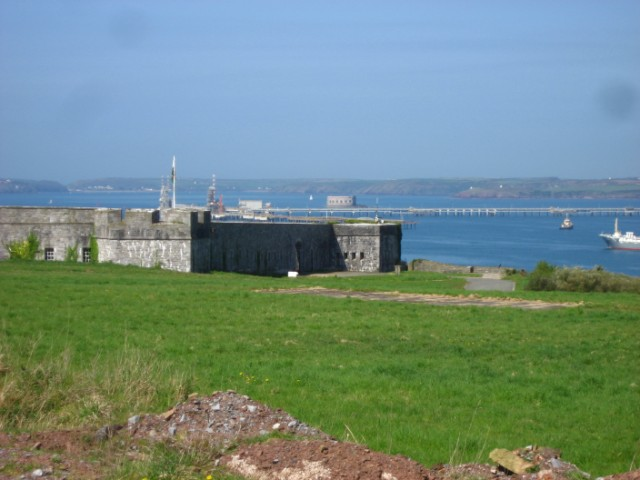 Popton Fort Part of the nineteenth century defences built around Milford haven. In later years the fort was used by the BP oil company as their offices for the oil terminal located below. For more detailed information about Popton this is an excellent link